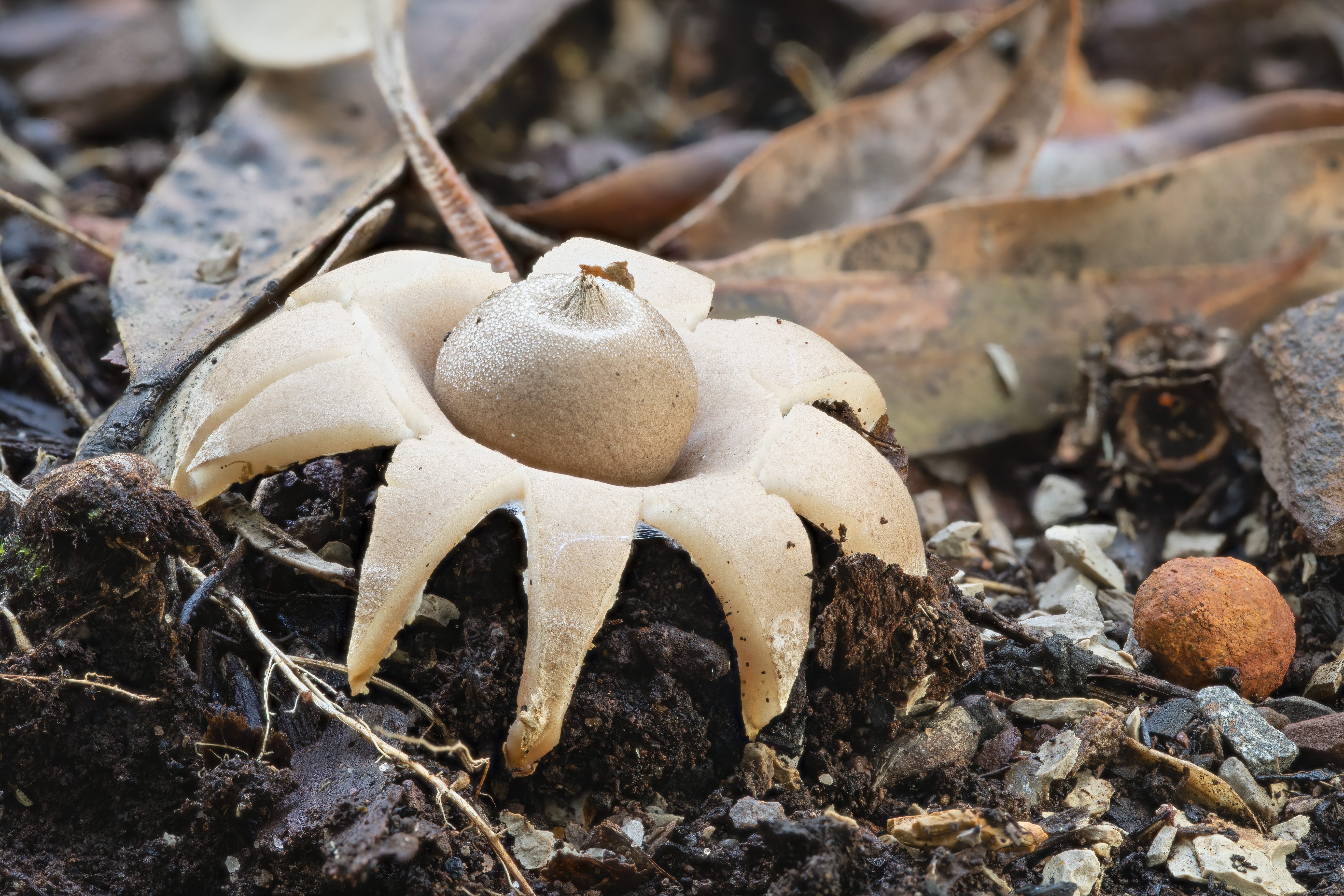 Geastrum triplex, Bola Creek, Royal National Park, New South Wales, Australia